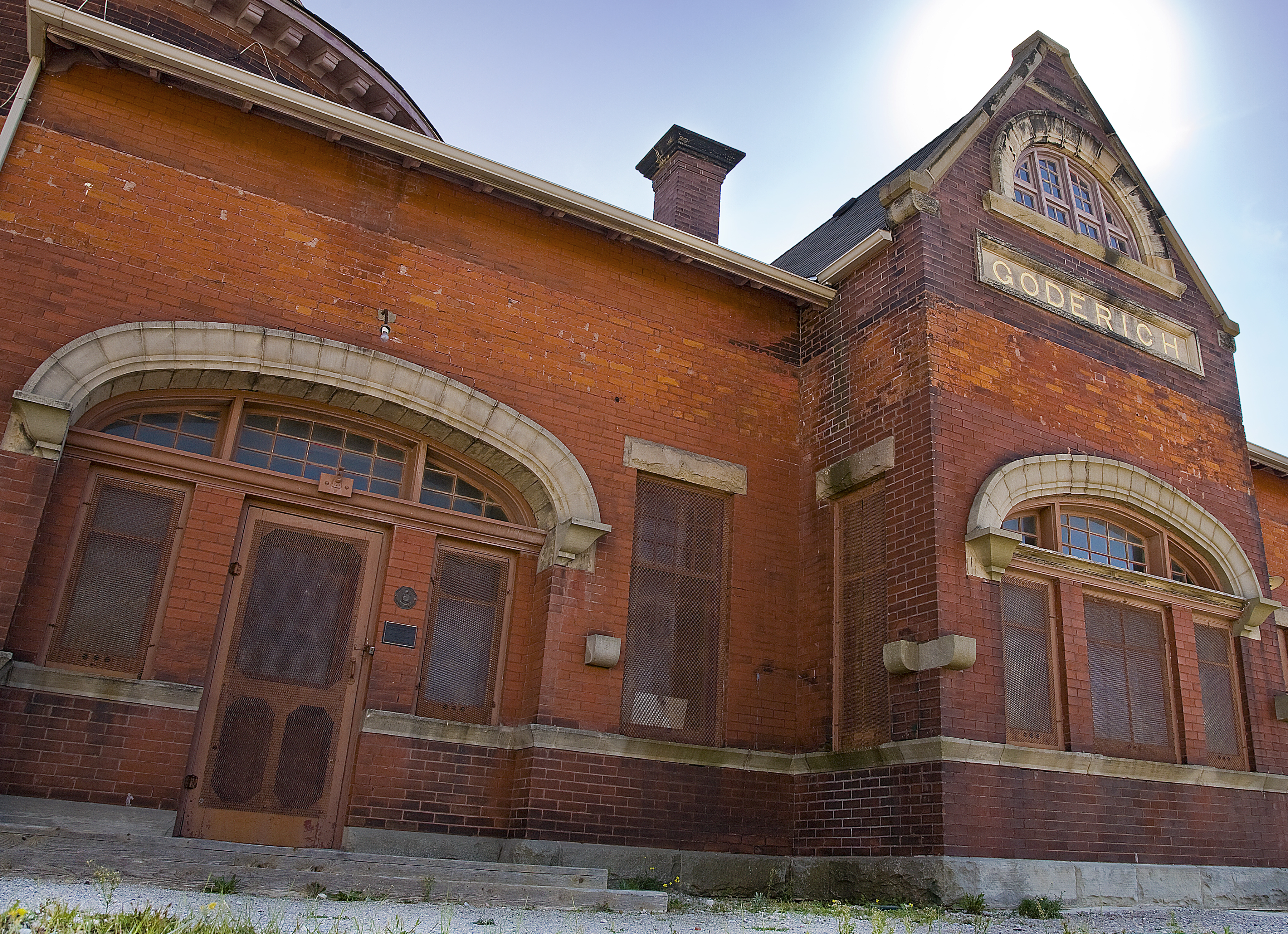 The Goderich CPR Station is associated with the growth and development of the Town of Goderich. The CPR began its freight and passenger service in 1907, following the completion of the Menesetung Bridge spanning the Maitland River between Goderich and Colborne Township.